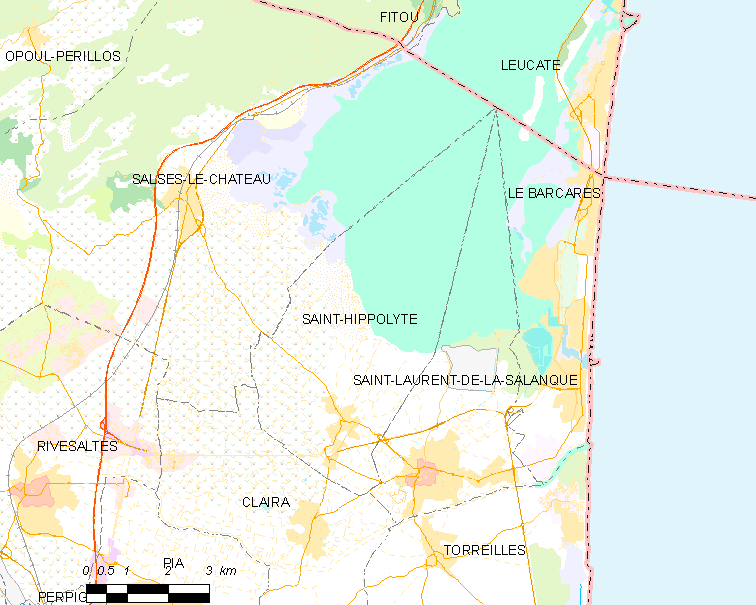 Map of French municipality